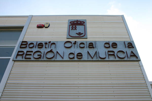 BORM building